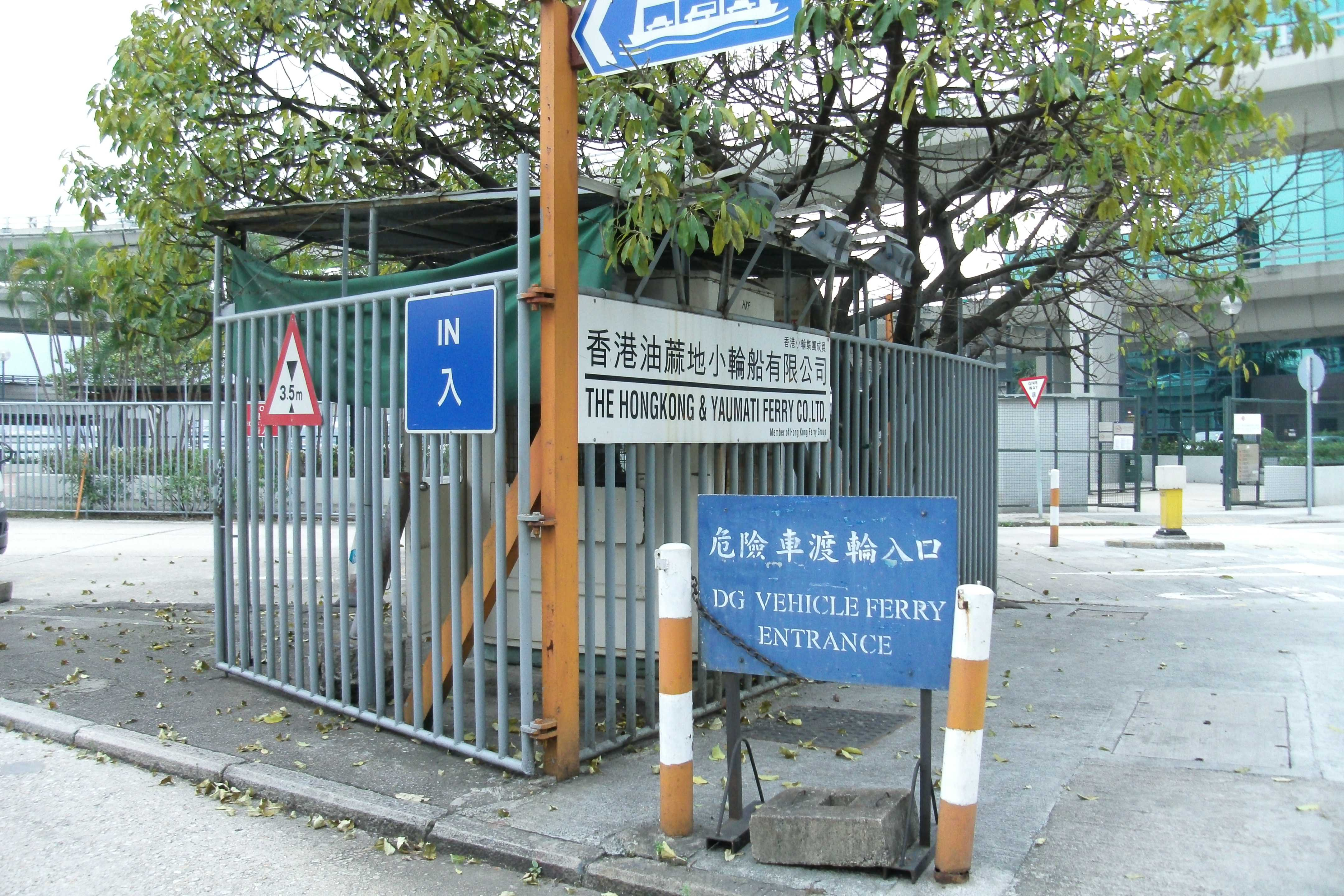 Yaumati ferry north point pier